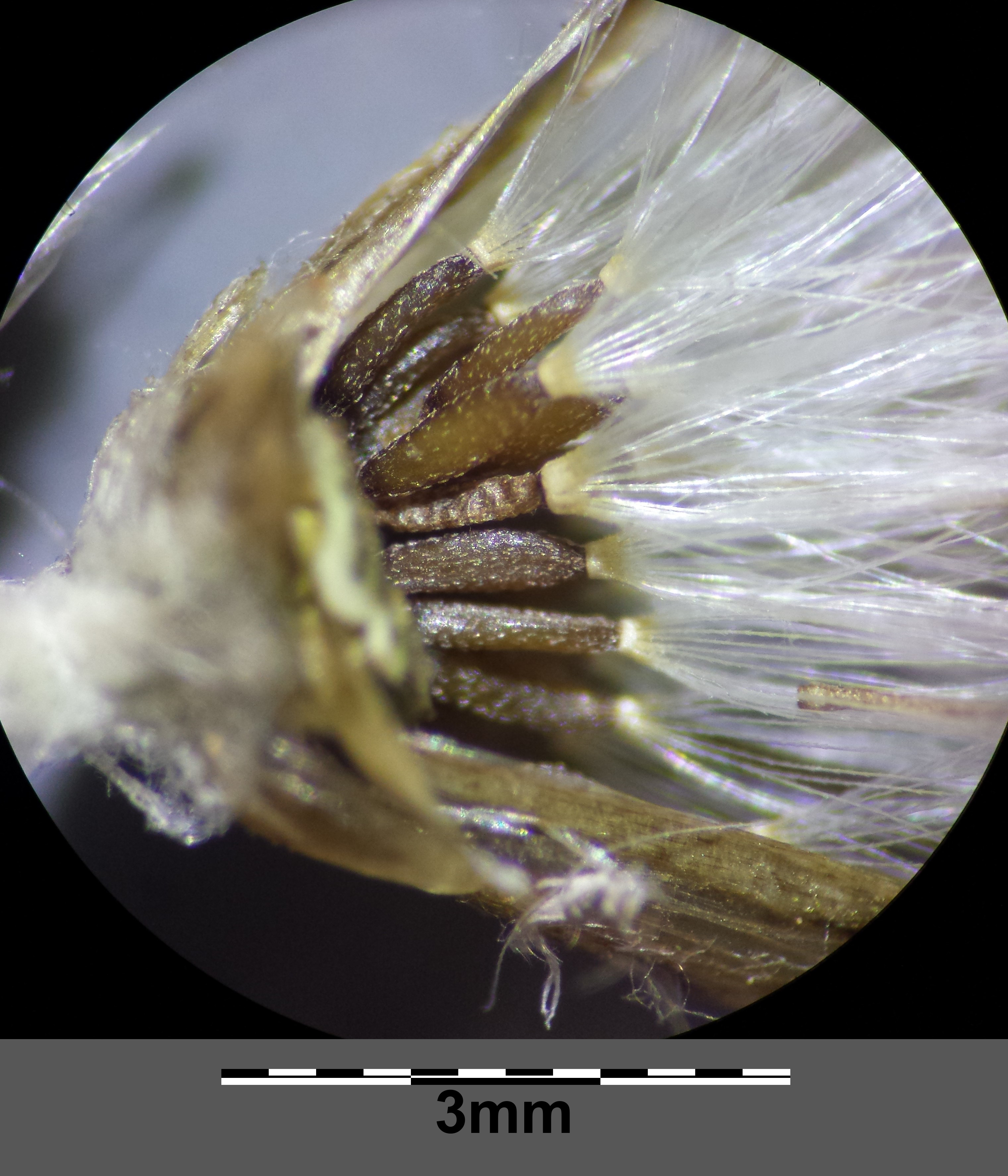 Flower heads with fruits Taxonym: Gnaphalium sylvaticum ss Fischer et al. EfÖLS 2008 ISBN 978-3-85474-187-9 Location: next to Großschönau, district Gmünd, Lower Austria - ca. 675 m a.s.l. Habitat: wayside within a wood